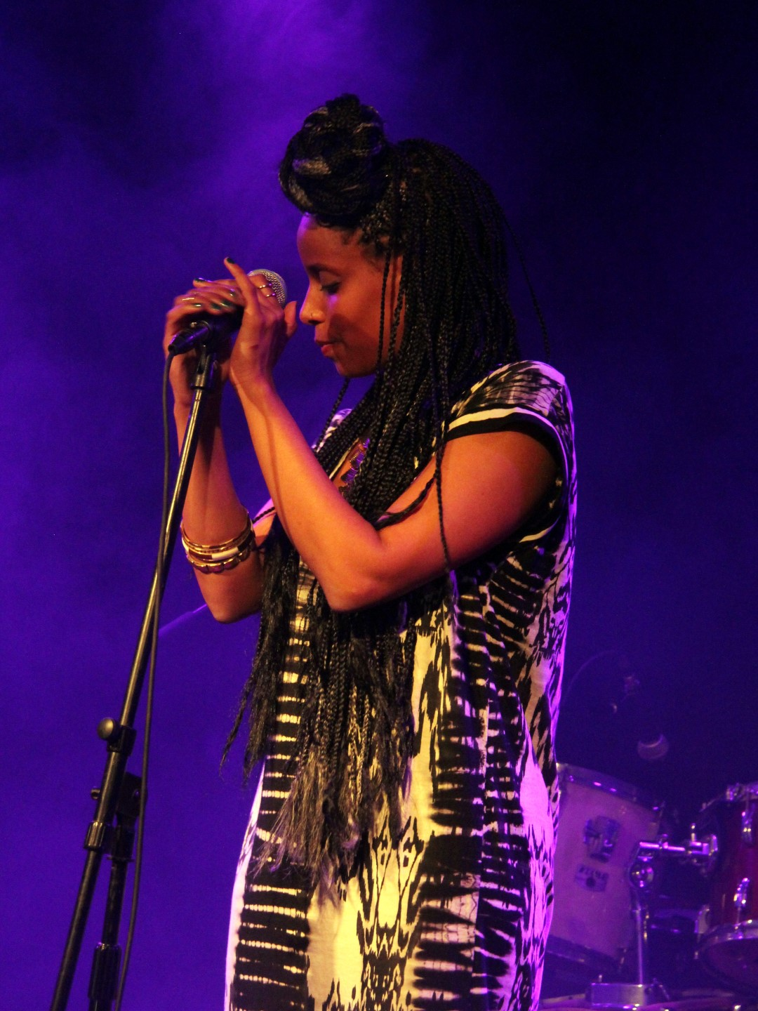 Israeli singer - Aveva Dese